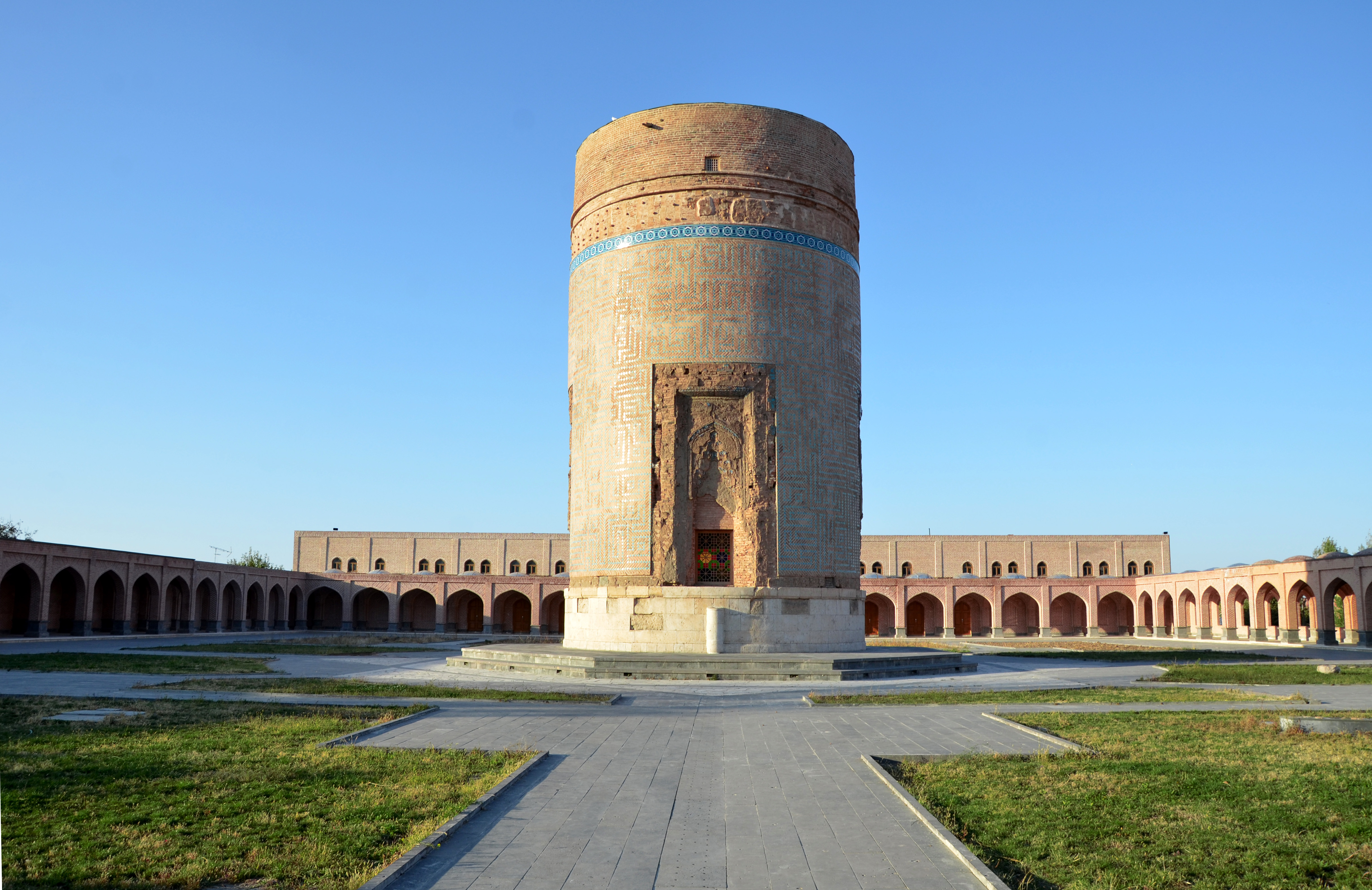 Sheykh Heydar Tomb, Meshkinshahr, Iran